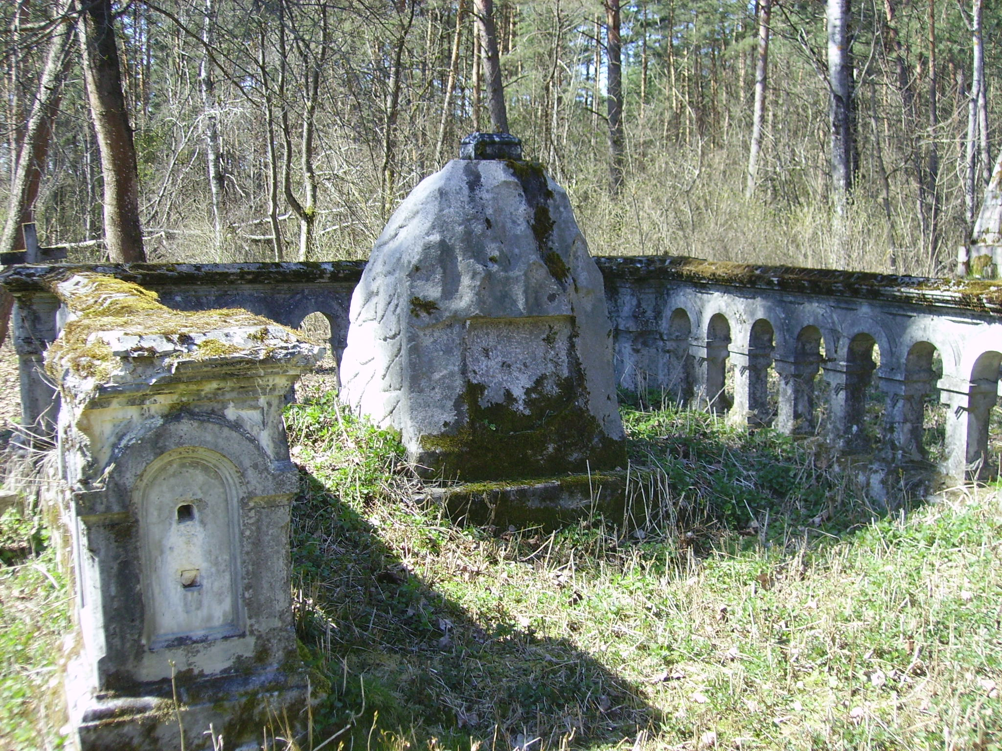 Osowiec-Fortress (Fort 3 - Orthodox cemetery.)